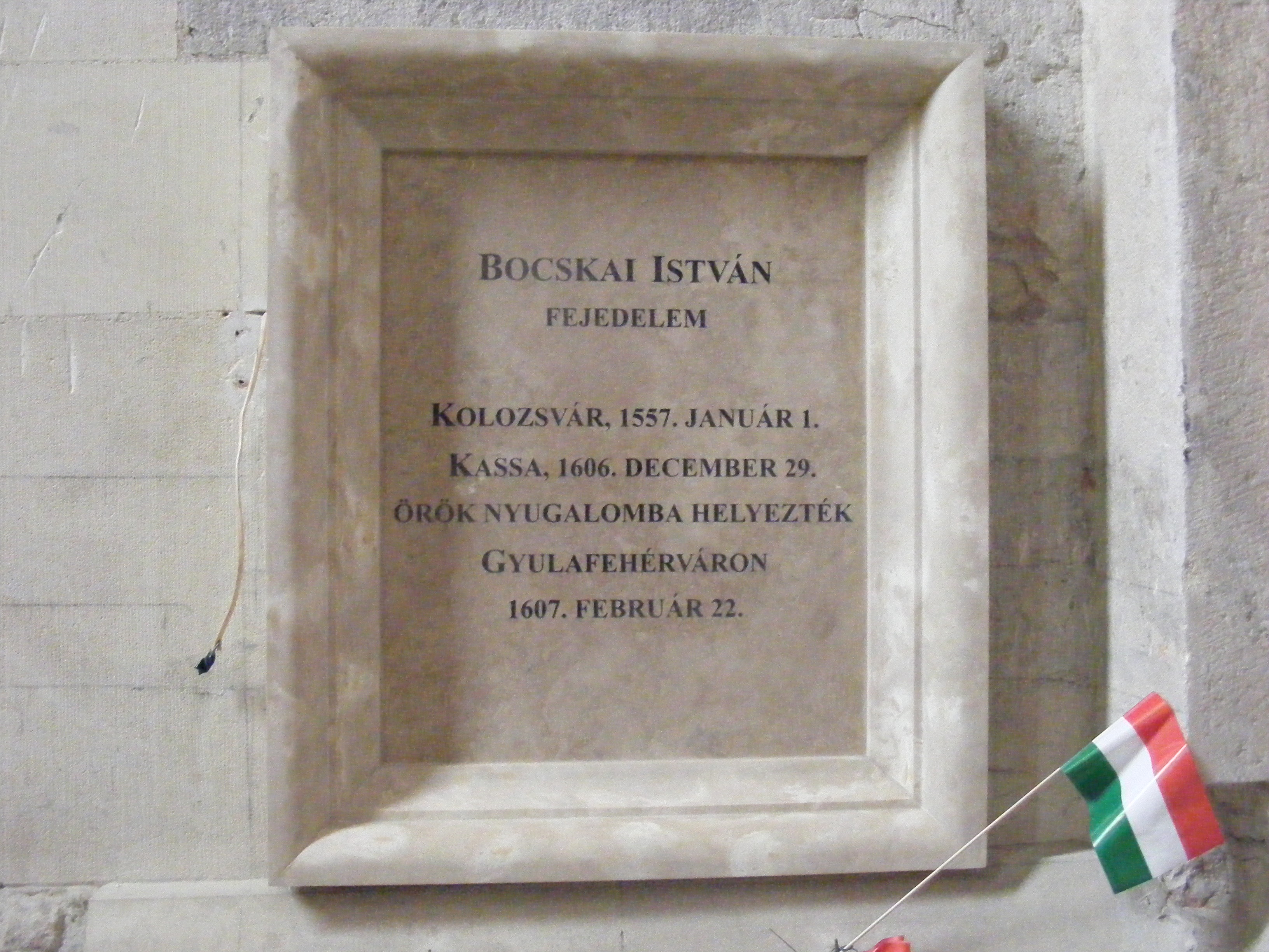 Bocskai István's grave in Gyulafehérvár (Alba Iulia)